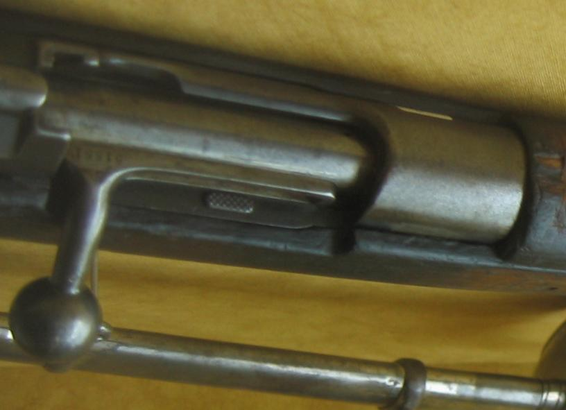 Mannlicher-Schönauer in Thessaloniki War museum